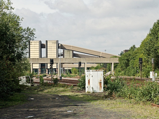 Gascoigne Wood Mine. The photograph shows the hoppers used for the loading of trains with coal. At present (September 2006) demolition of the mine is taking place so these structures may soon disappear.